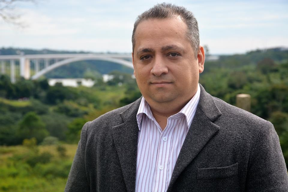 Fábio Aristimunho Vargas